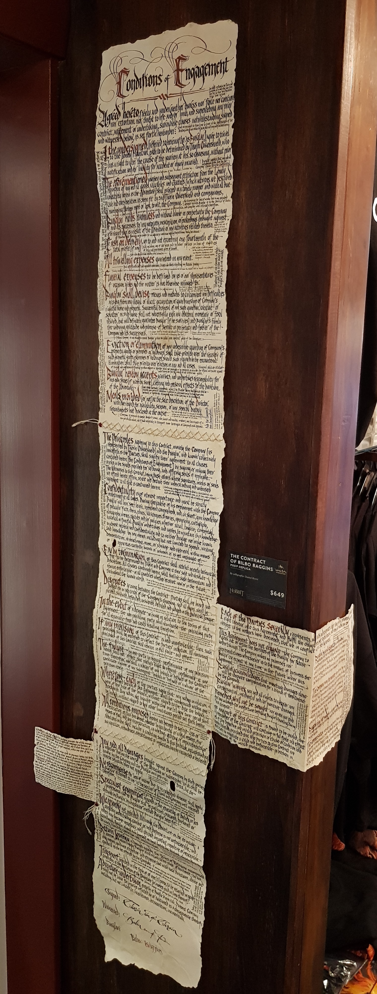 A prop replica of the contract of Bilbo Baggins, created by Daniel Reeve. It is found at the Weta Cave in Wellington, New Zealand.